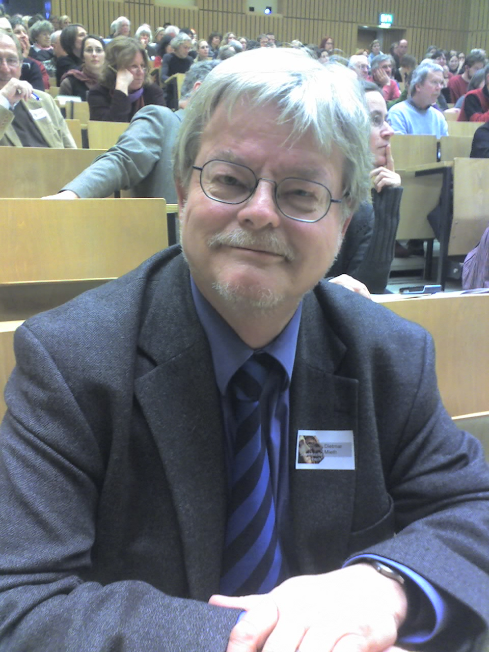 Dietmar Mieth, professor of catholic theology, leading professor for ethics in the natural sciences, from Tübingen.